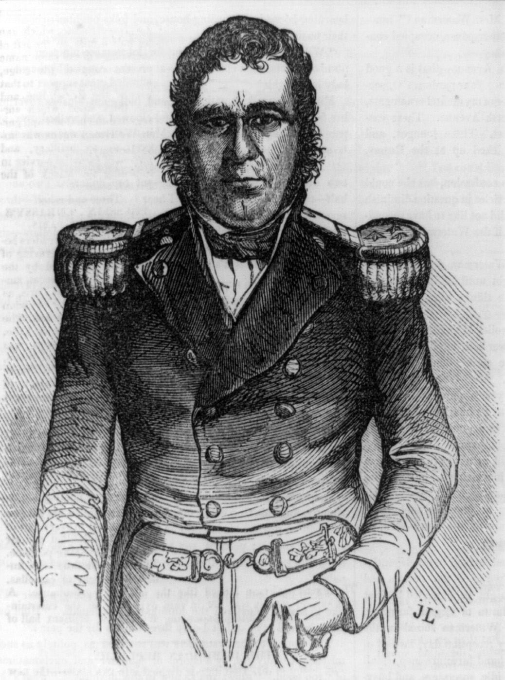 Pedro Santana, President of the Dominican Republic. Illus. in: Gleason's Pictorial, 1854, v. 7, p. 149.